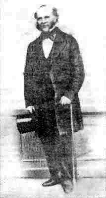 Dr. Robert Reid Kalley (1809-1888), a Protestant Scottish physician.